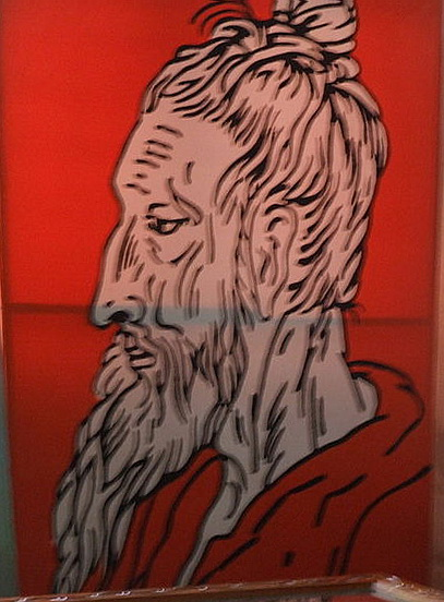 Derivative of File:Lalon Tomb0017.JPG